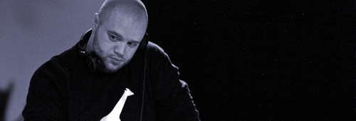 DJ SWAB